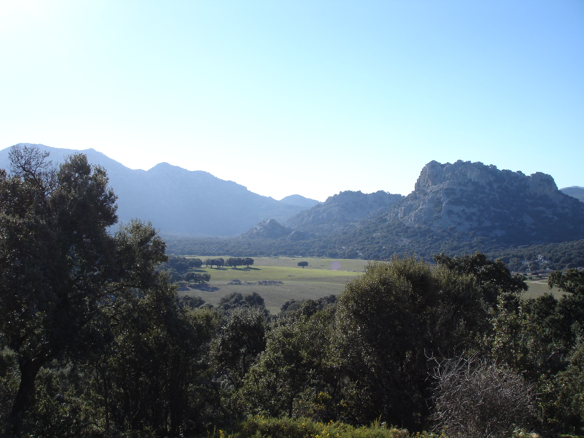 Llanos de Líbar, a karstic landform (polje), Andalusia, Spain